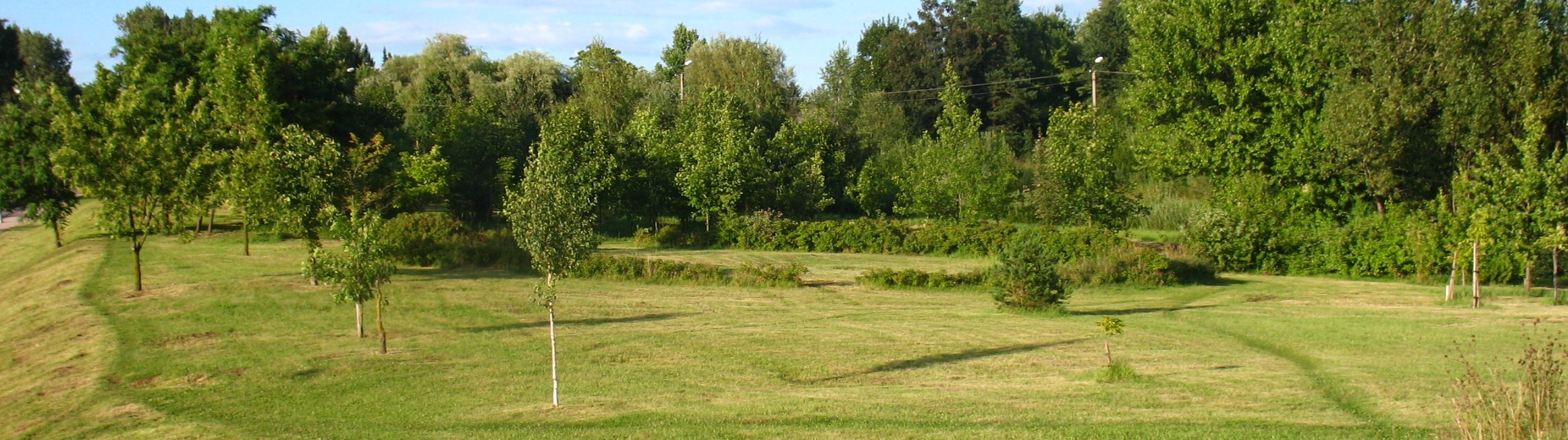 Atminimo parkas, Jonava